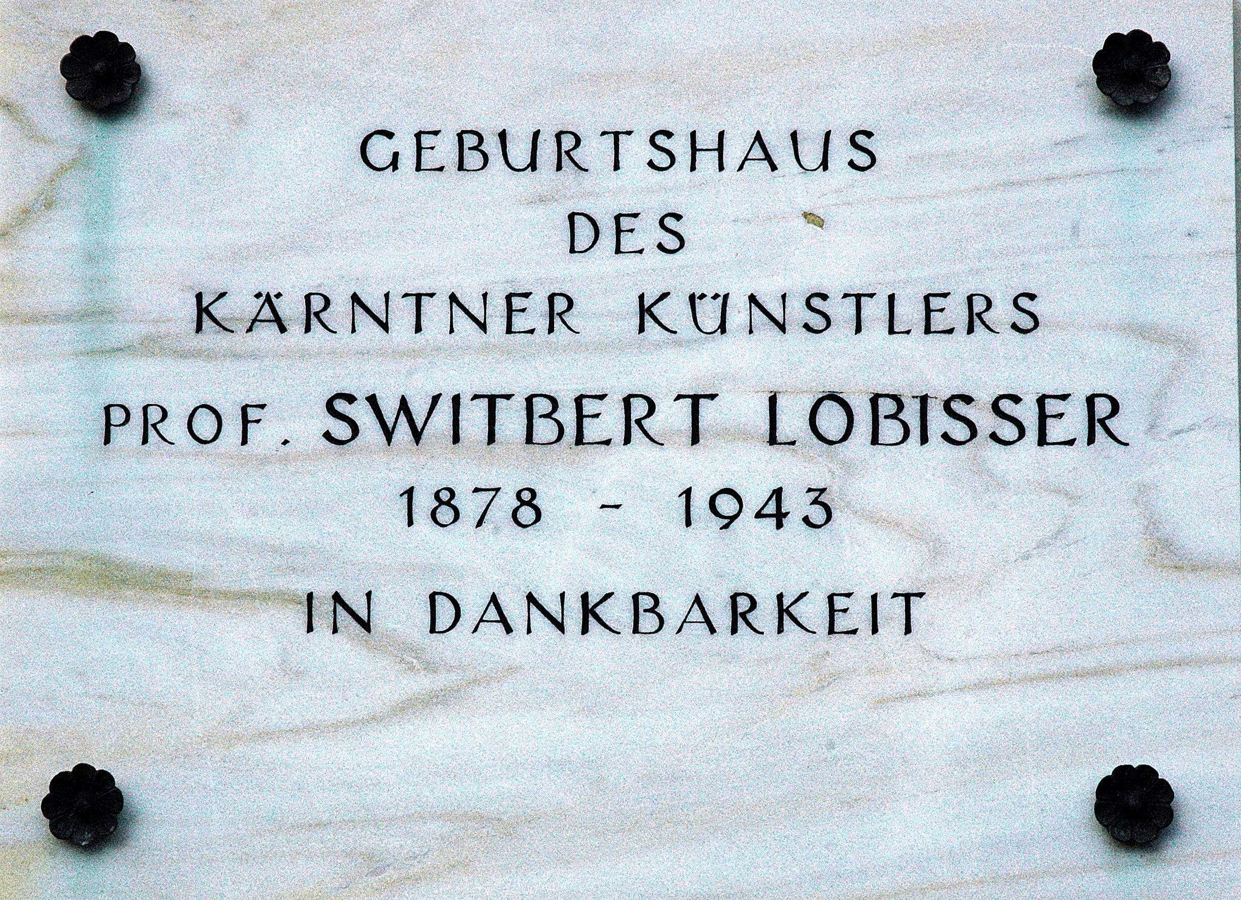 Plaque on Lobisser´s birthplace at Tiffen #28, municipality Steindorf am Ossiacher See, district Feldkirchen, Carinthia, Austria, EU